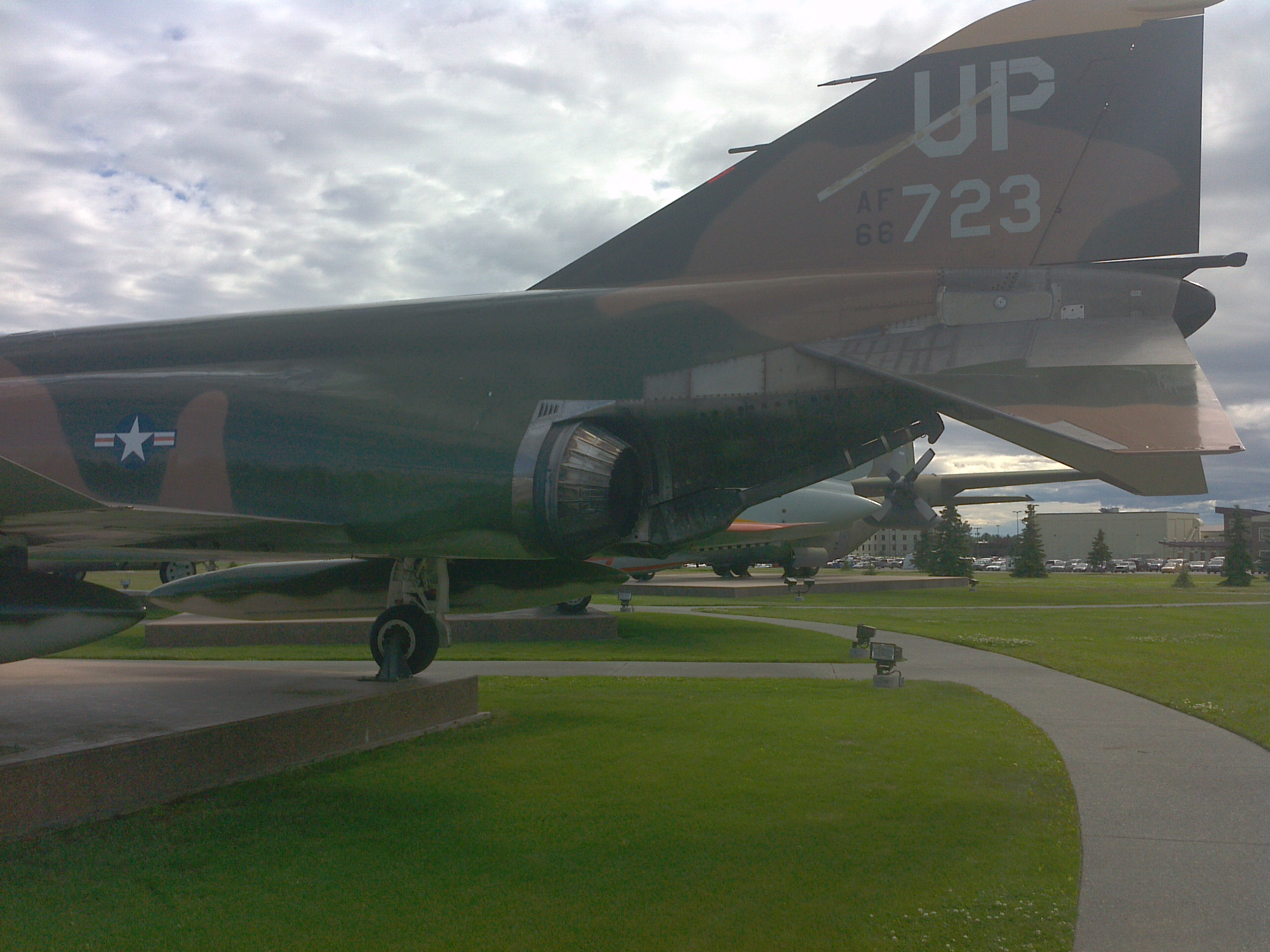 F4 Phantom at JBER tailhook